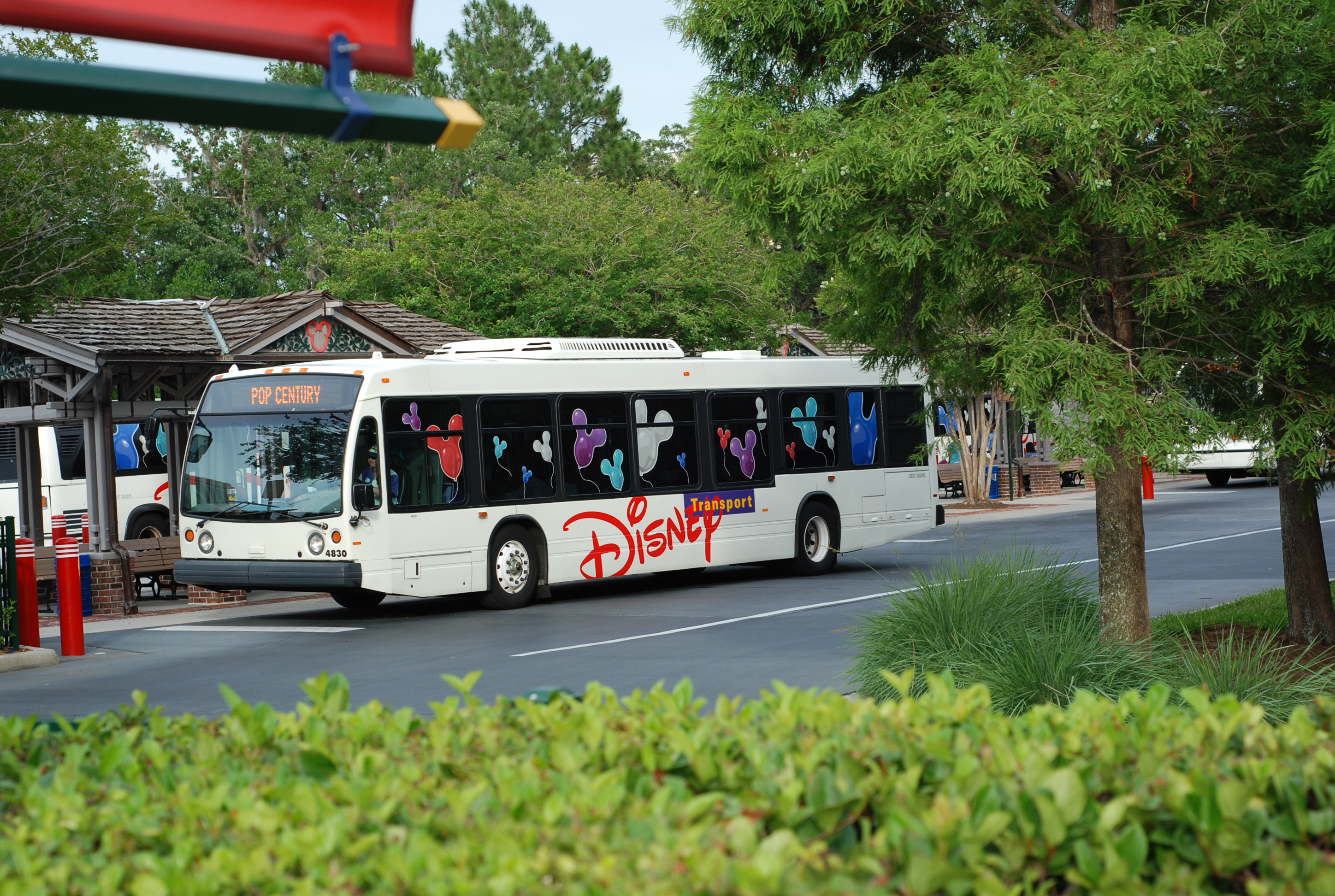 A Disney bus in Walt Disney World, Florida